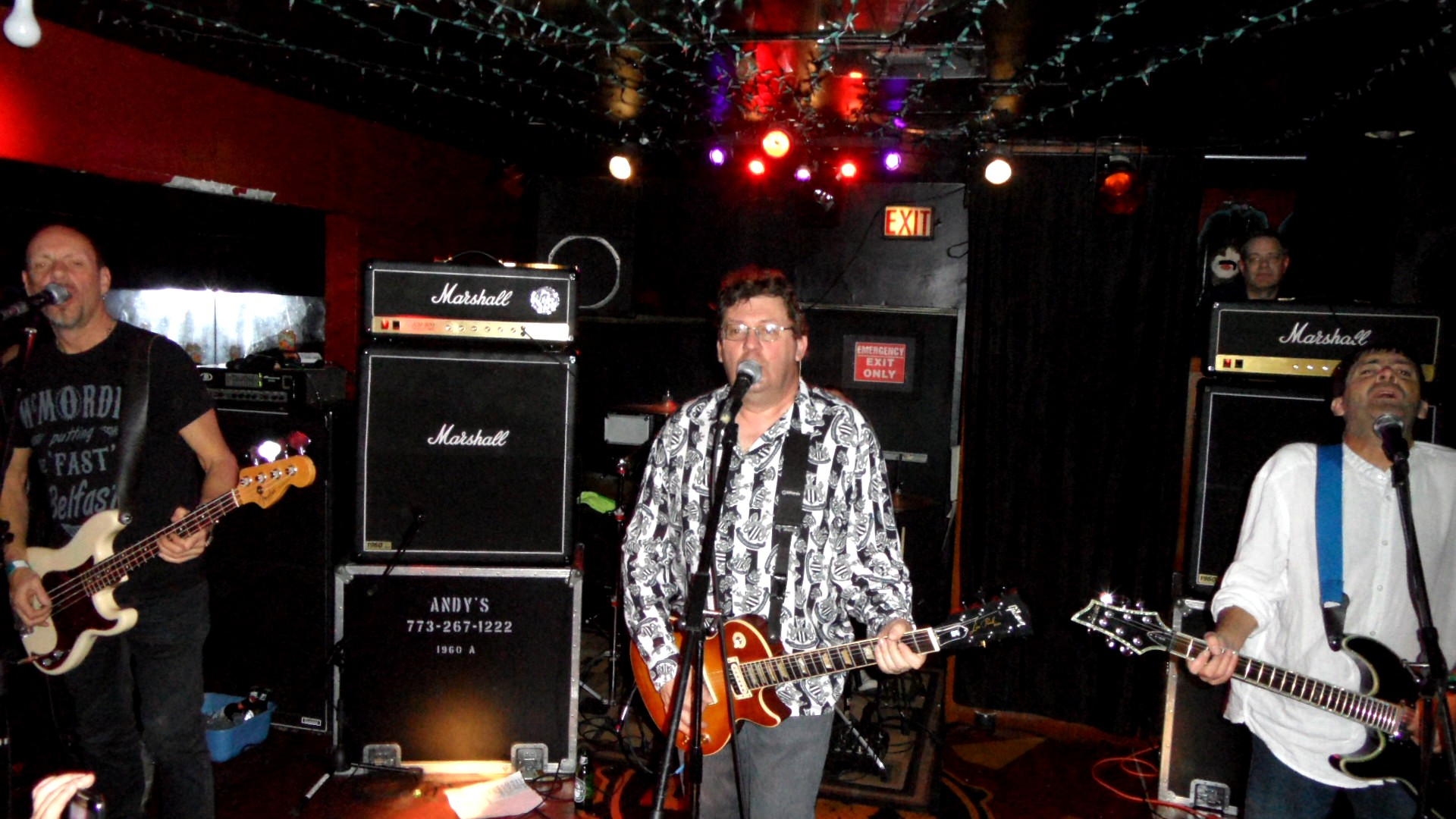 Performing a concert for charity at Liar's Club in Chicago.